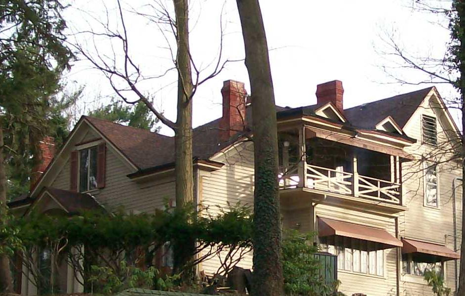 Woodridge at 1308 Steenrod Avenue in Wheeling, West Virginia. The northern facade is photographed on April 2, 2010.